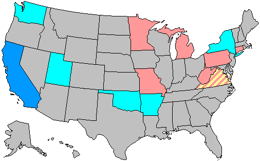 Summary of party change of U.S. house seats in the 2000 House election. Stripes indicate a tie between the gains of two or more parties. Legend: 6+ Democratic seat pickup 3-5 Democratic seat pickup 1-2 Democratic seat pickup 1-2 Republican seat pickup 3-5 Republican seat pickup 6+ Republican seat pickup 1-2 Independent seat pickup Note: years ending in 2 may have inconsistent results due to redistricting.